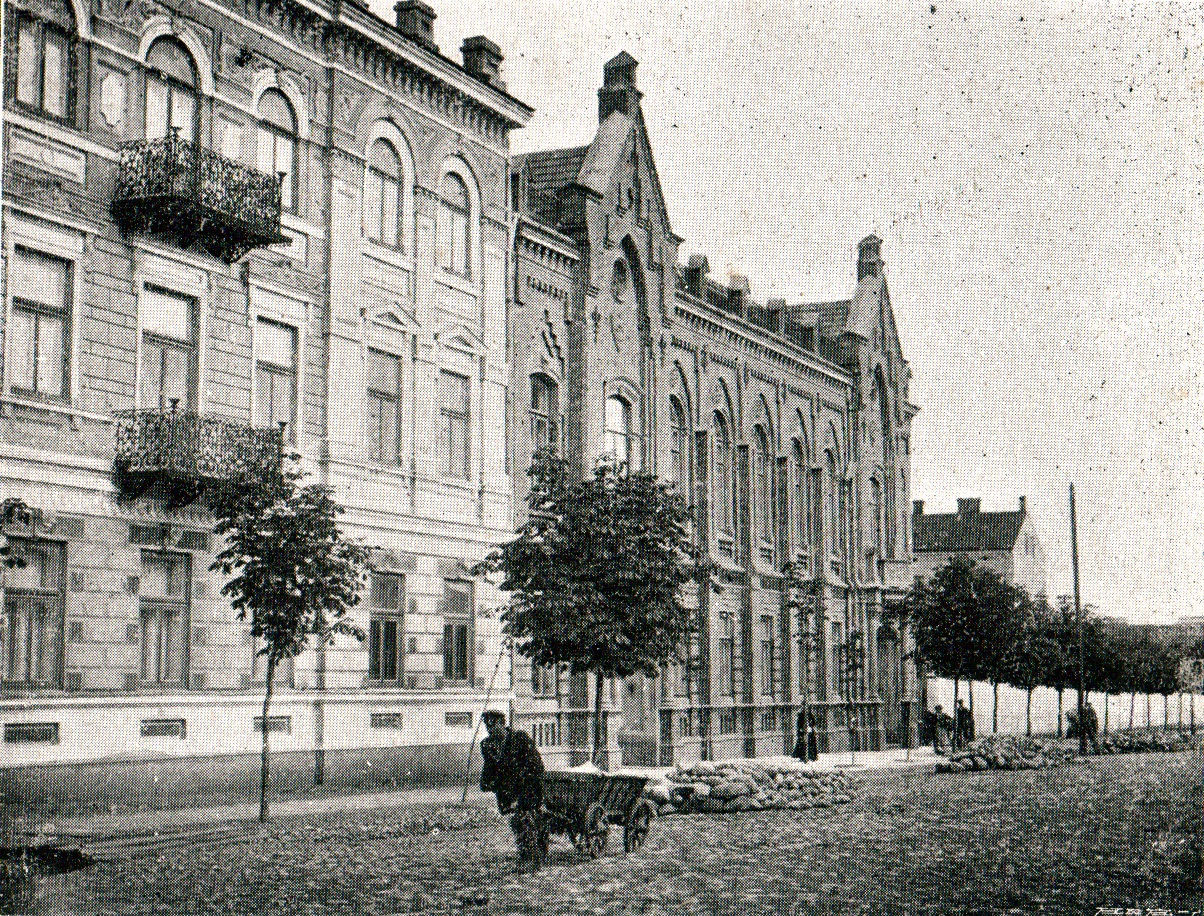 Industrial Loan Office in Radom, 1899